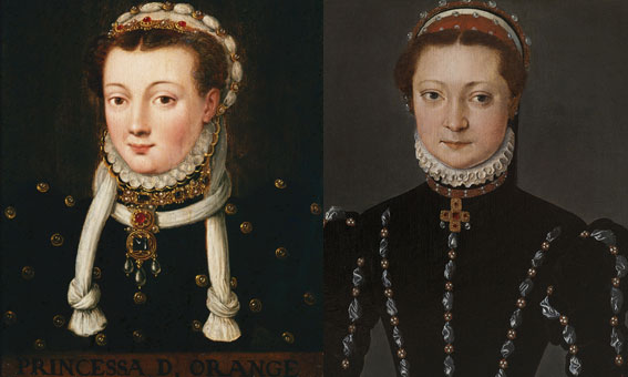 a new portrait of Anna van Egmont?